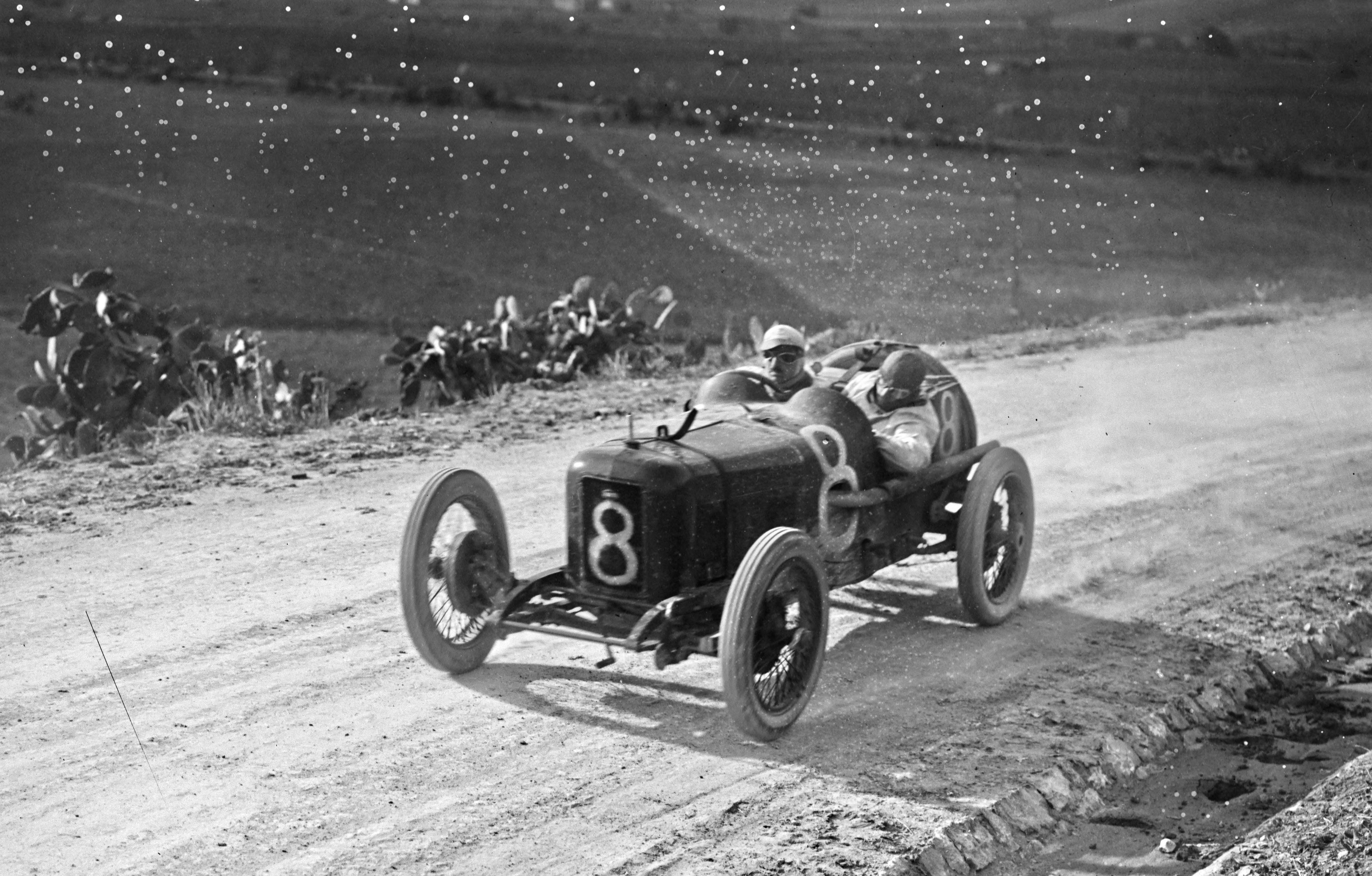 Alfieri Maserati at the 1922 Coppa Florio - zugeschnittene Version